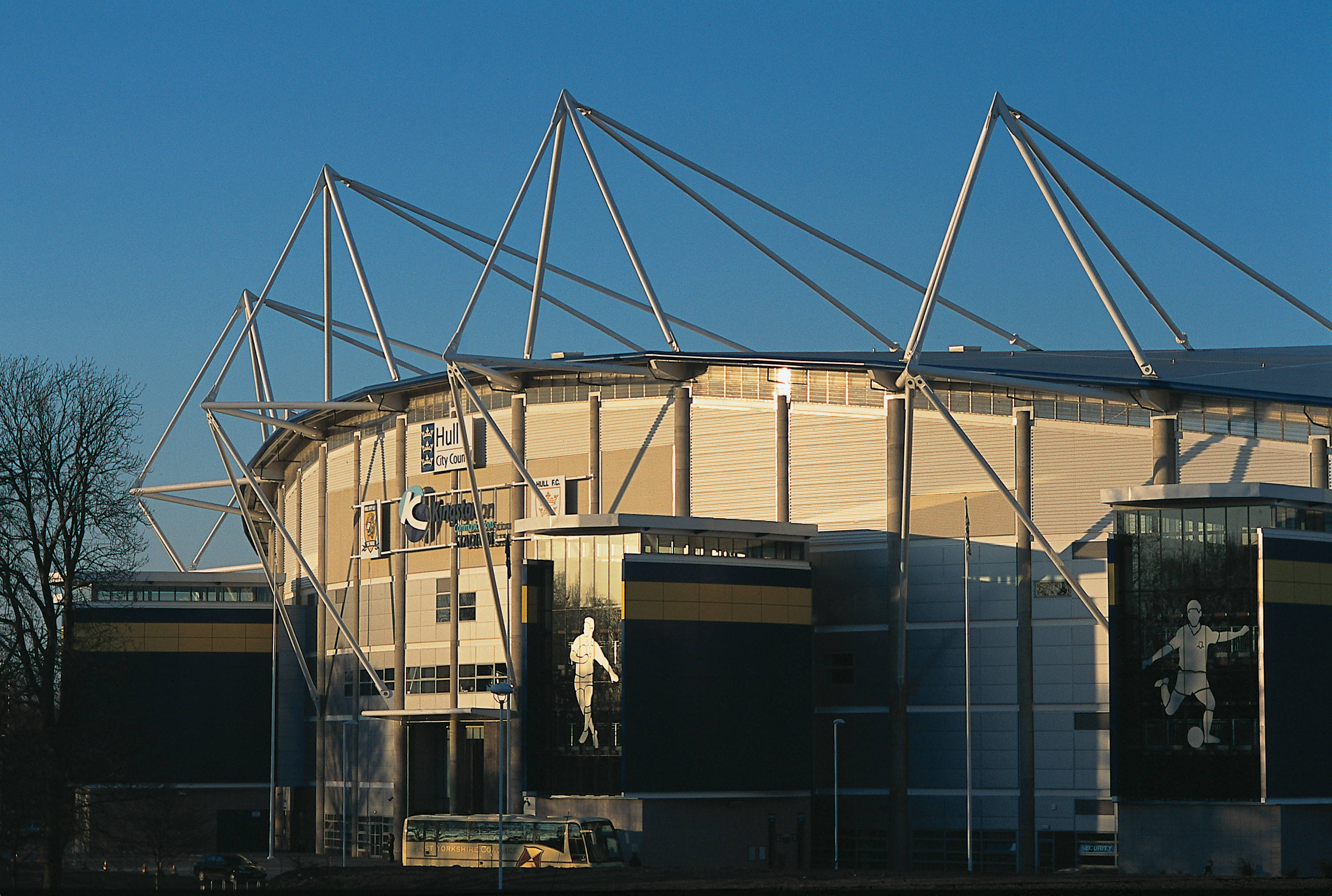 KC Stadium in day